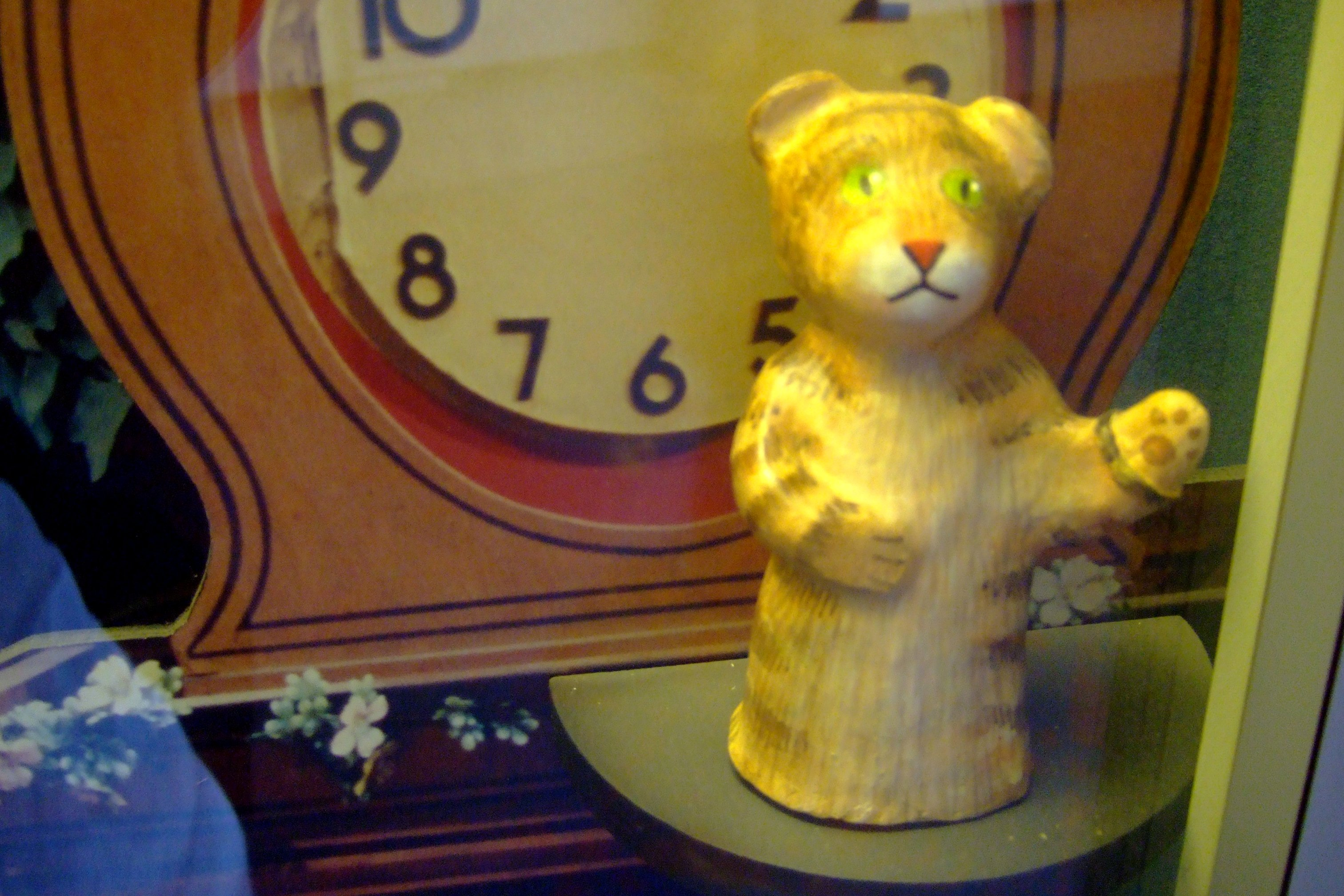 There is a display in one of the terminals at Pittsburgh International Airport which contains artifacts from Mister Rogers' Neighborhood, which was filmed in Pittsburgh. It is a really cool display and I recommend going to find it if you ever find yourself in this airport. It has all sorts of props and whatnot from the show as you will see. While I was taking these photos, one of the janitors walked up and told me that Fred Rogers always used to come to the airport and play with the kids waiting in the nearby play center. What an awesome guy.